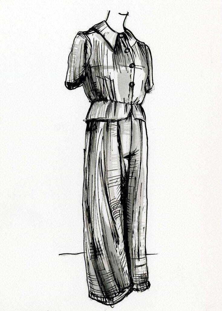 The description of the concept in this drawing is: Loose-fitting one- or two-piece garments consisting of short or long trousers and a shirt or pullover top, worn especially for sleeping or lounging around the house. (AAT)